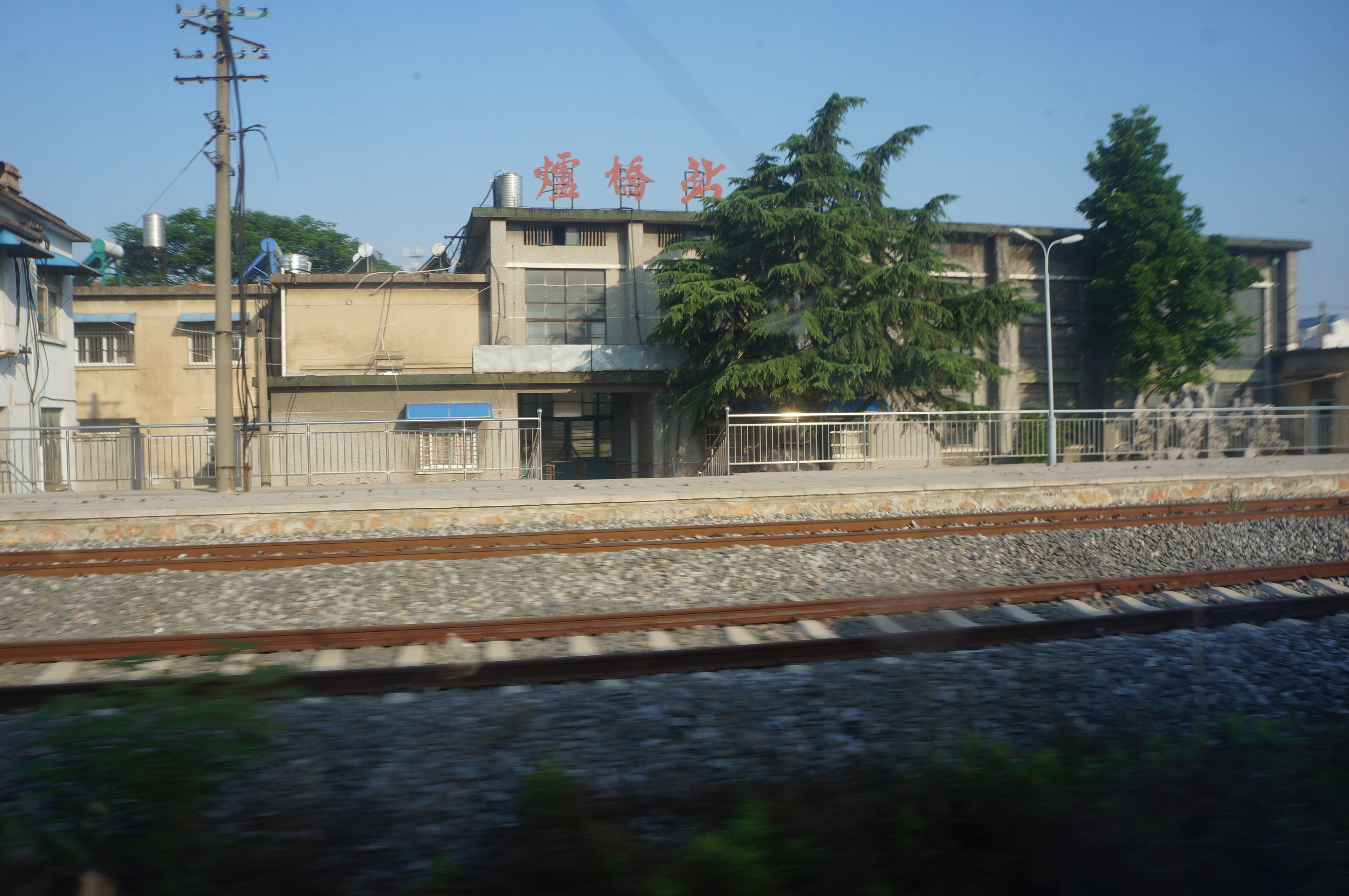 201705 Station building of Luqiao Station